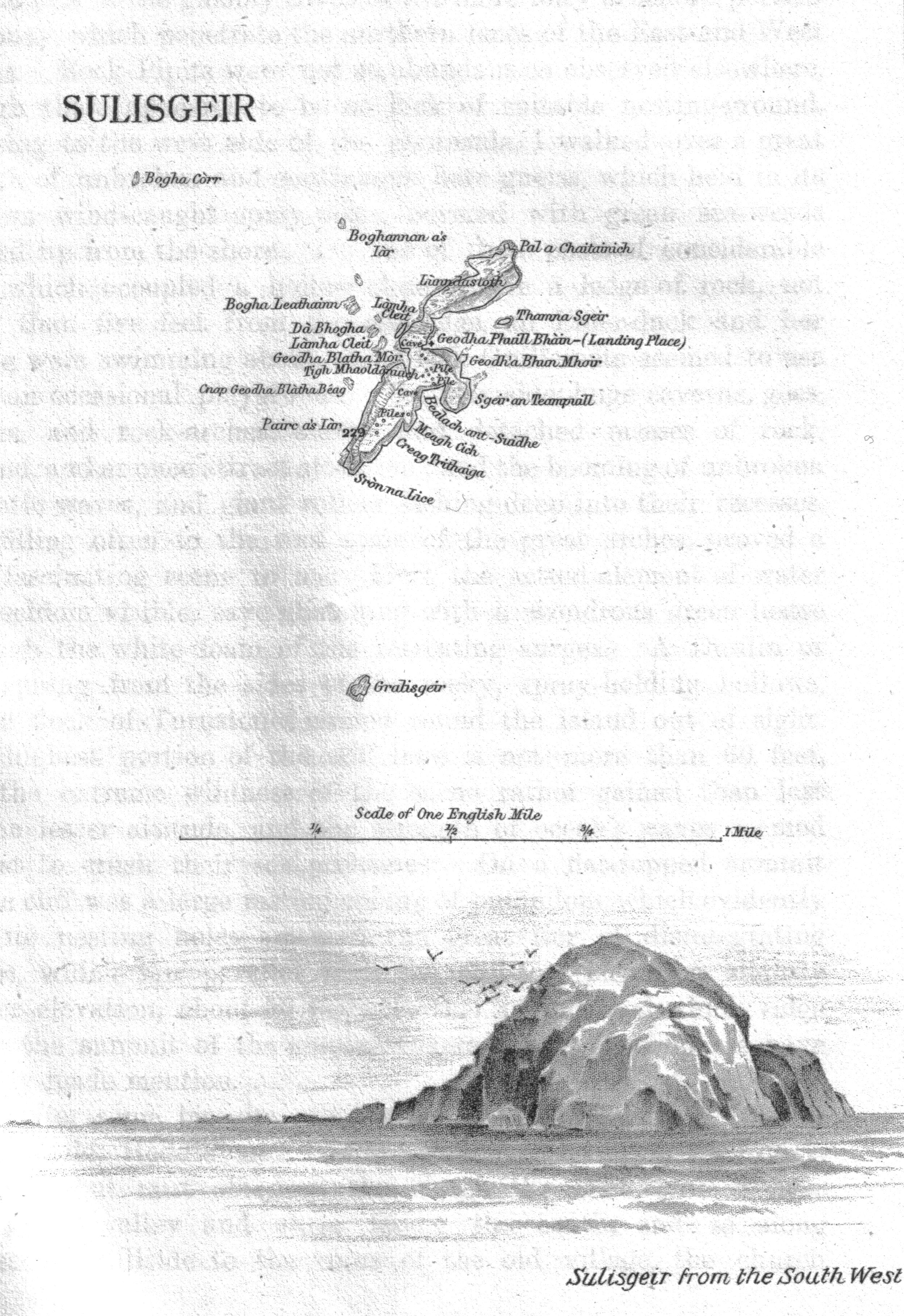 Sula sgeir Island, Outer Hebrides, Scotland.